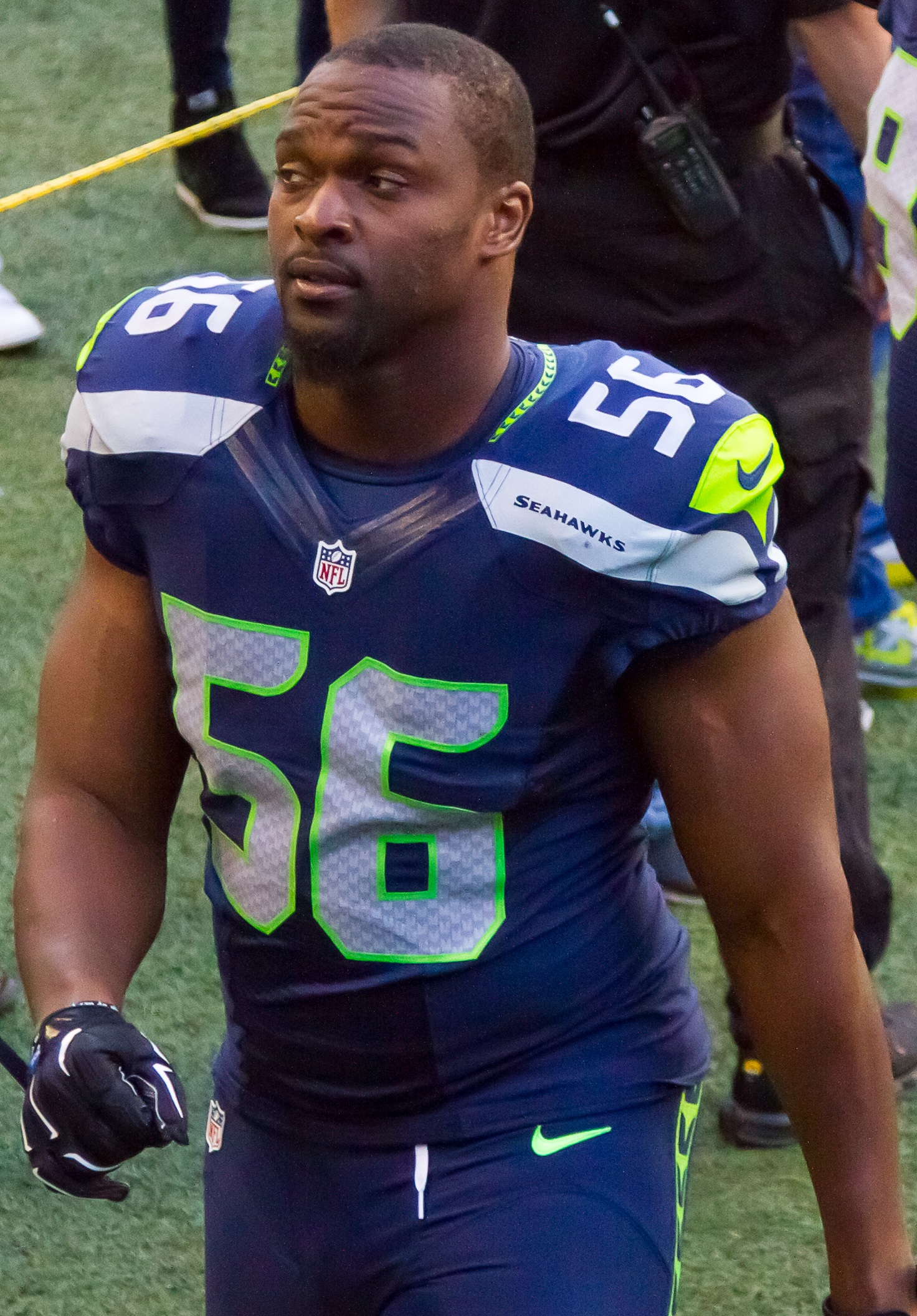 2015 preseason